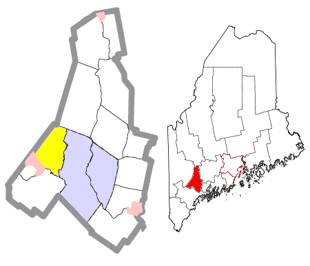 Map of the divisions of Androscoggin County, Maine, United States, with the town of Minot highlighted in yellow. The cities of Auburn and Lewiston are light blue; other towns are white; and pink areas are census-designated places within towns.